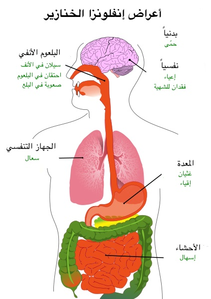 Translation of File:PD Diagram of swine flu symptoms EN.svg